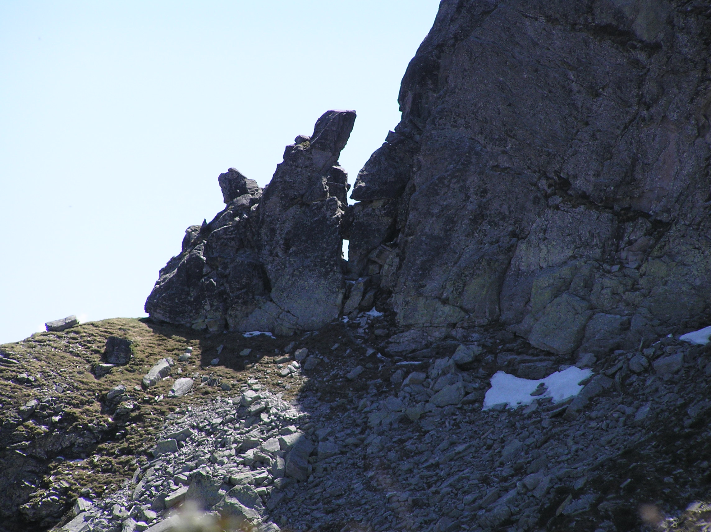 Camin de Biancalan